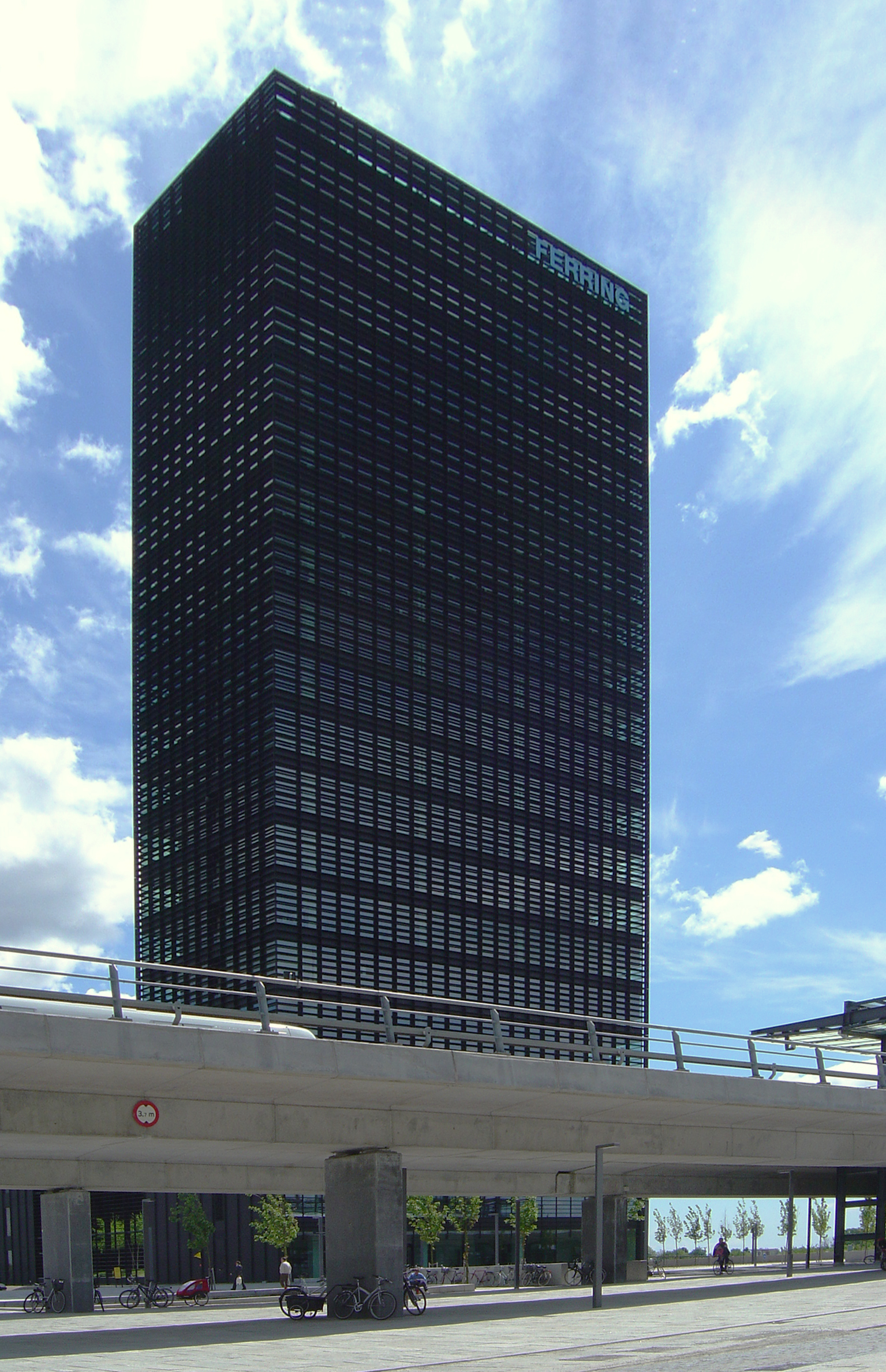 Ferring Pharmaceuticals - the Danish branch of a international Pharmaceutical company. These office buildings located in Ørestad, Amager, Copenhagen.